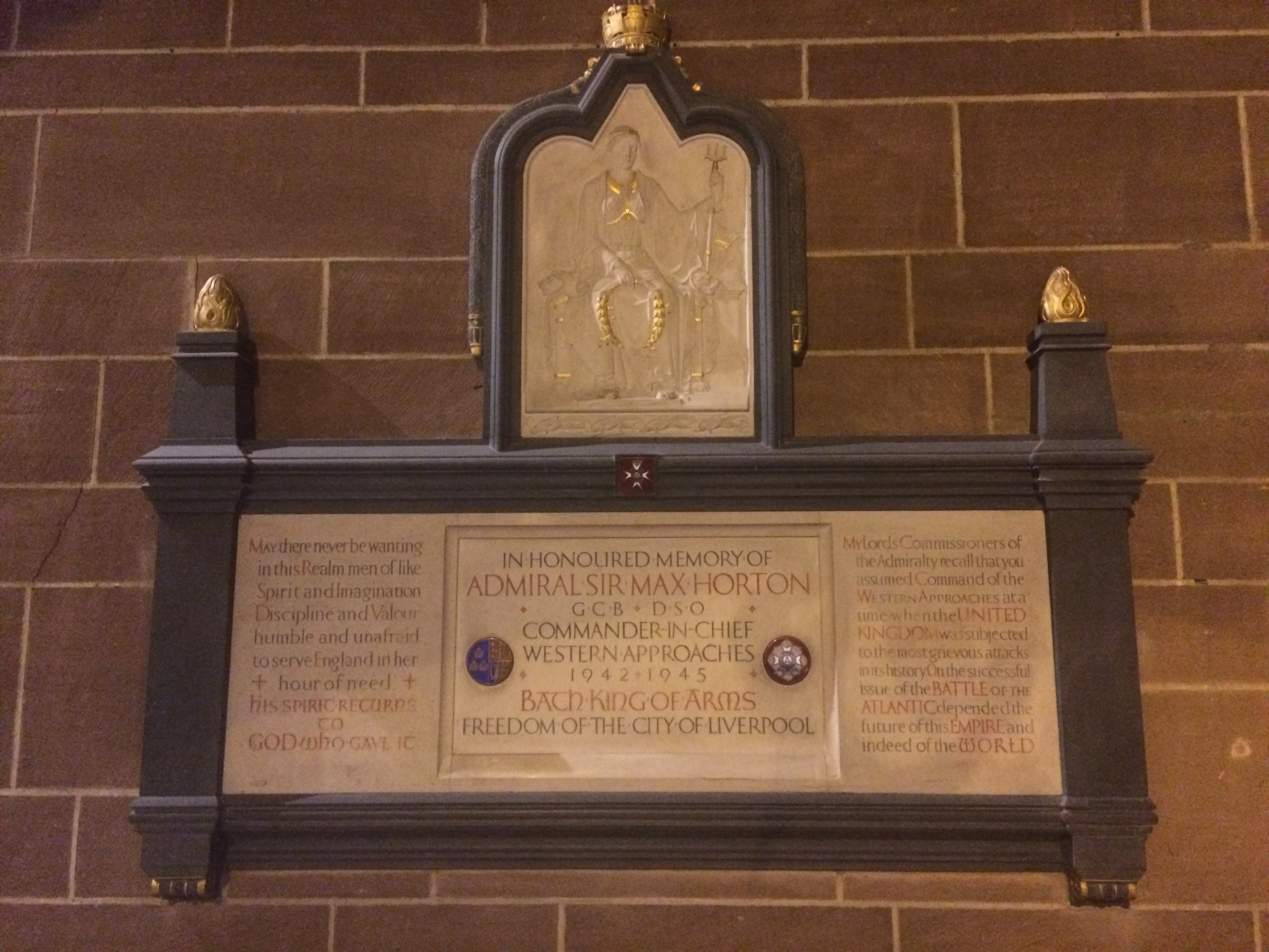 Memorial plaque to Admiral Max Horton at Liverpool Cathedral, England.